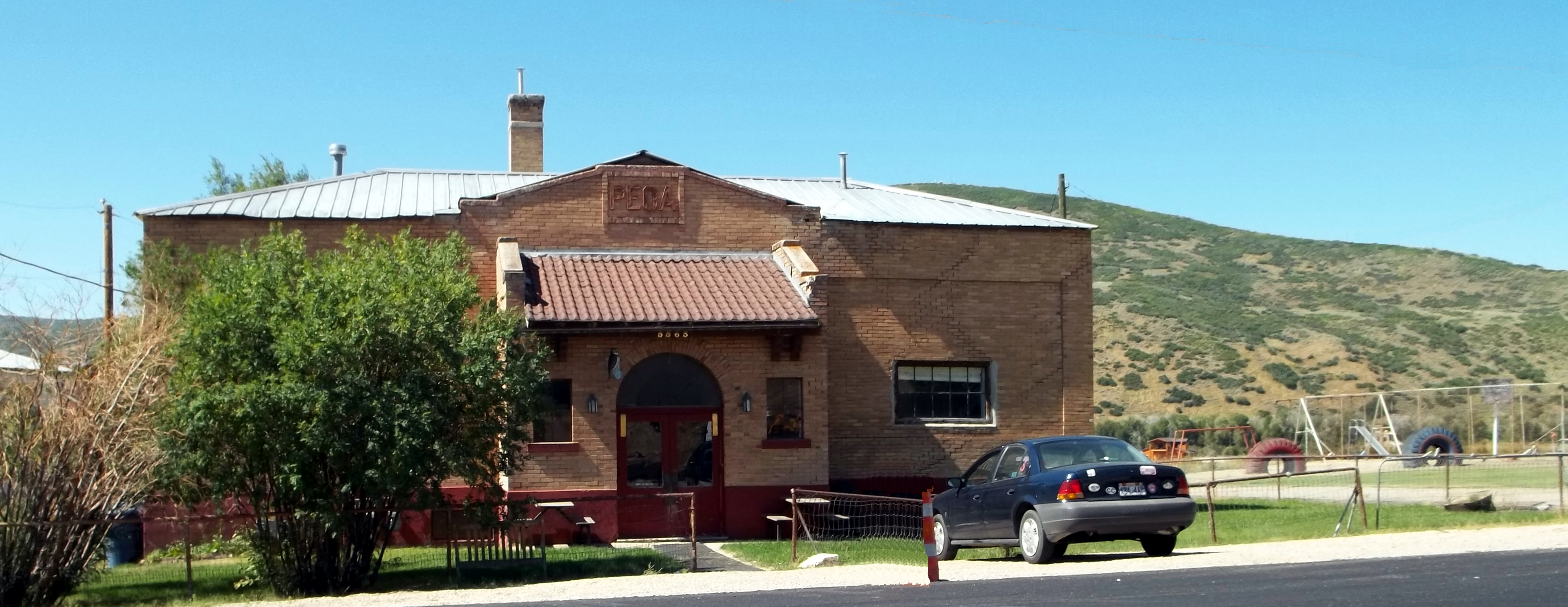 A public building in Peoa, Summit County, Utah, United States